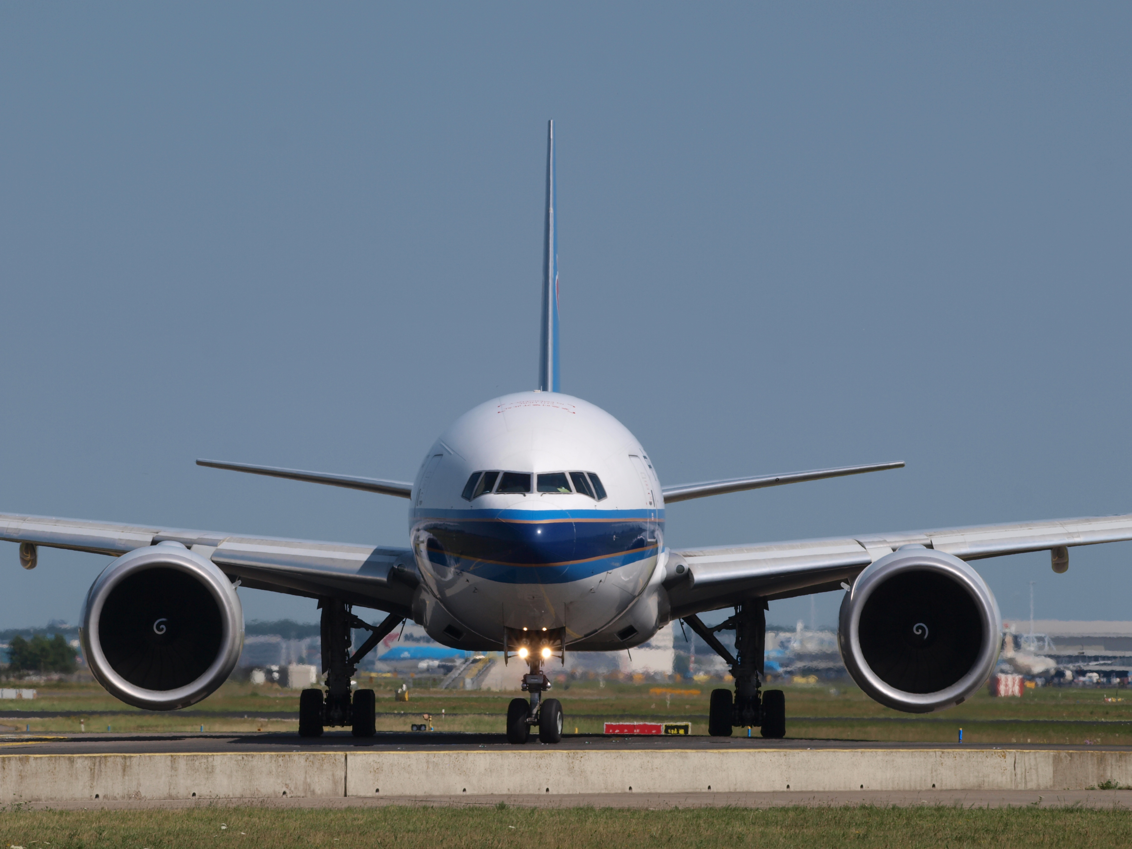 Photographed at Schiphol, Amsterdam airport, (IATA: AMS, ICAO: EHAM), the Netherlands.